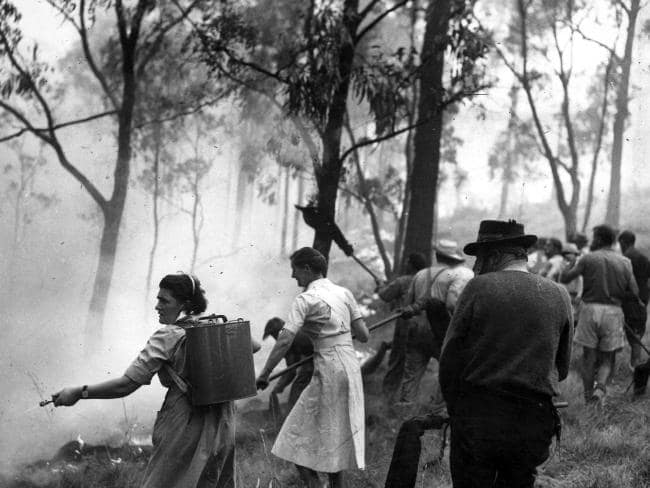 1962 bushfires - Melbourne Sun Newspaper